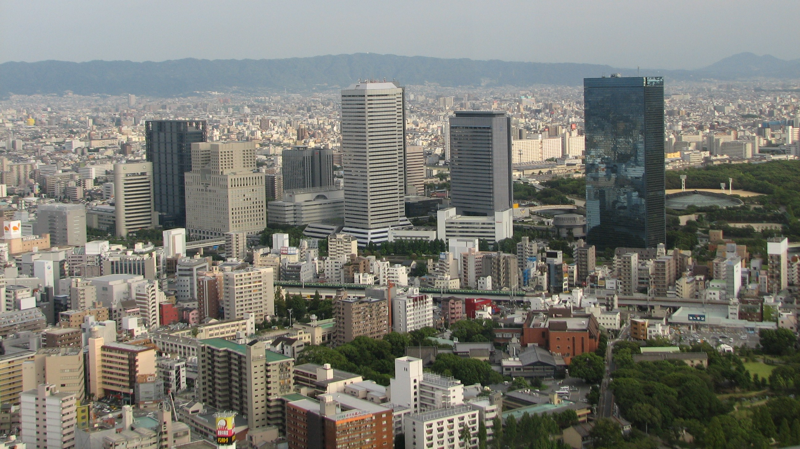 Osaka Business Park